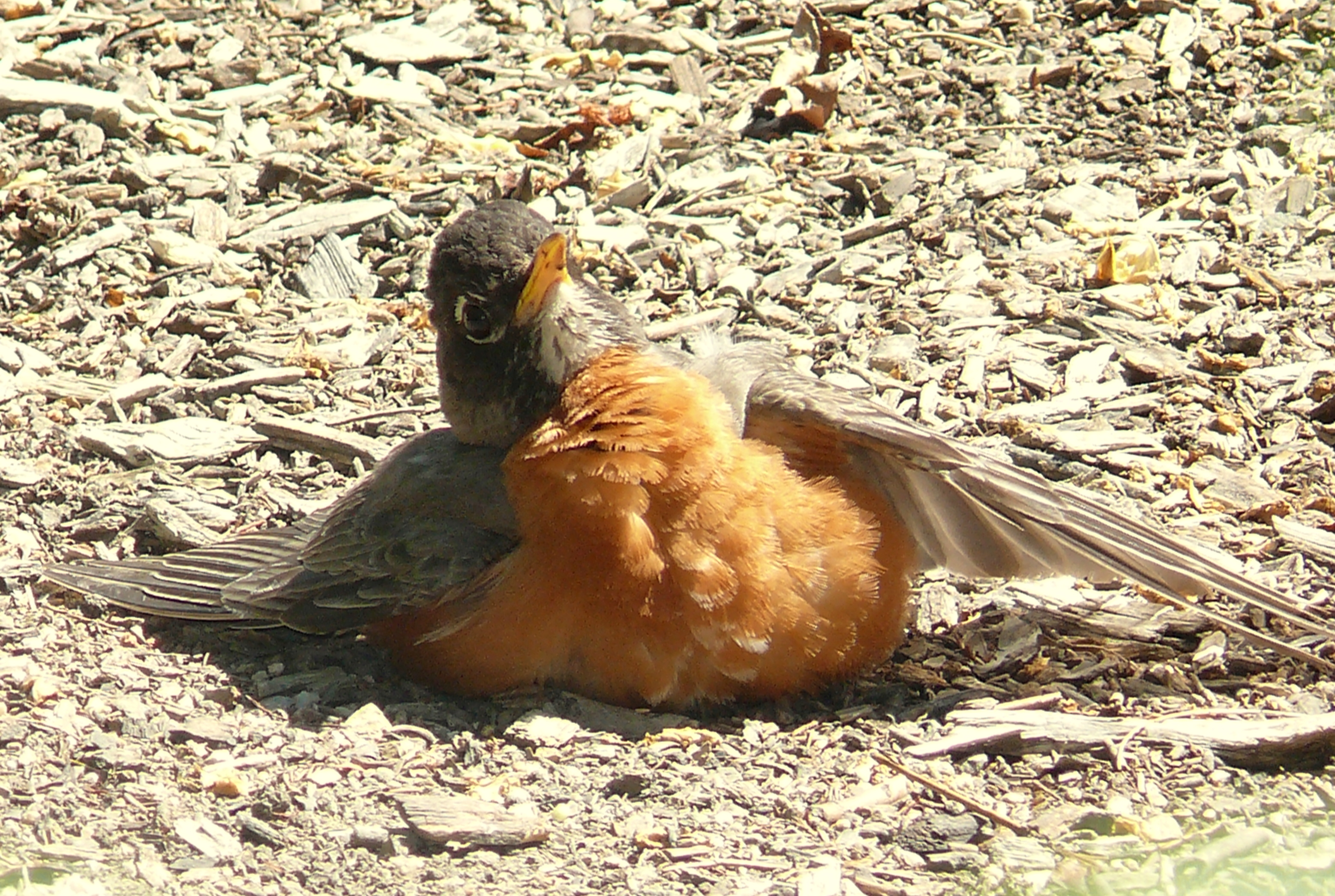 Turdus migratorius Taking a dust bath. He hasn't gotten to the part where he cleans the mud off his bill yet.